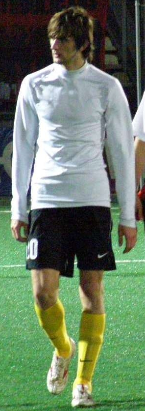 Alexandr Antipenko in action for FC Khimki